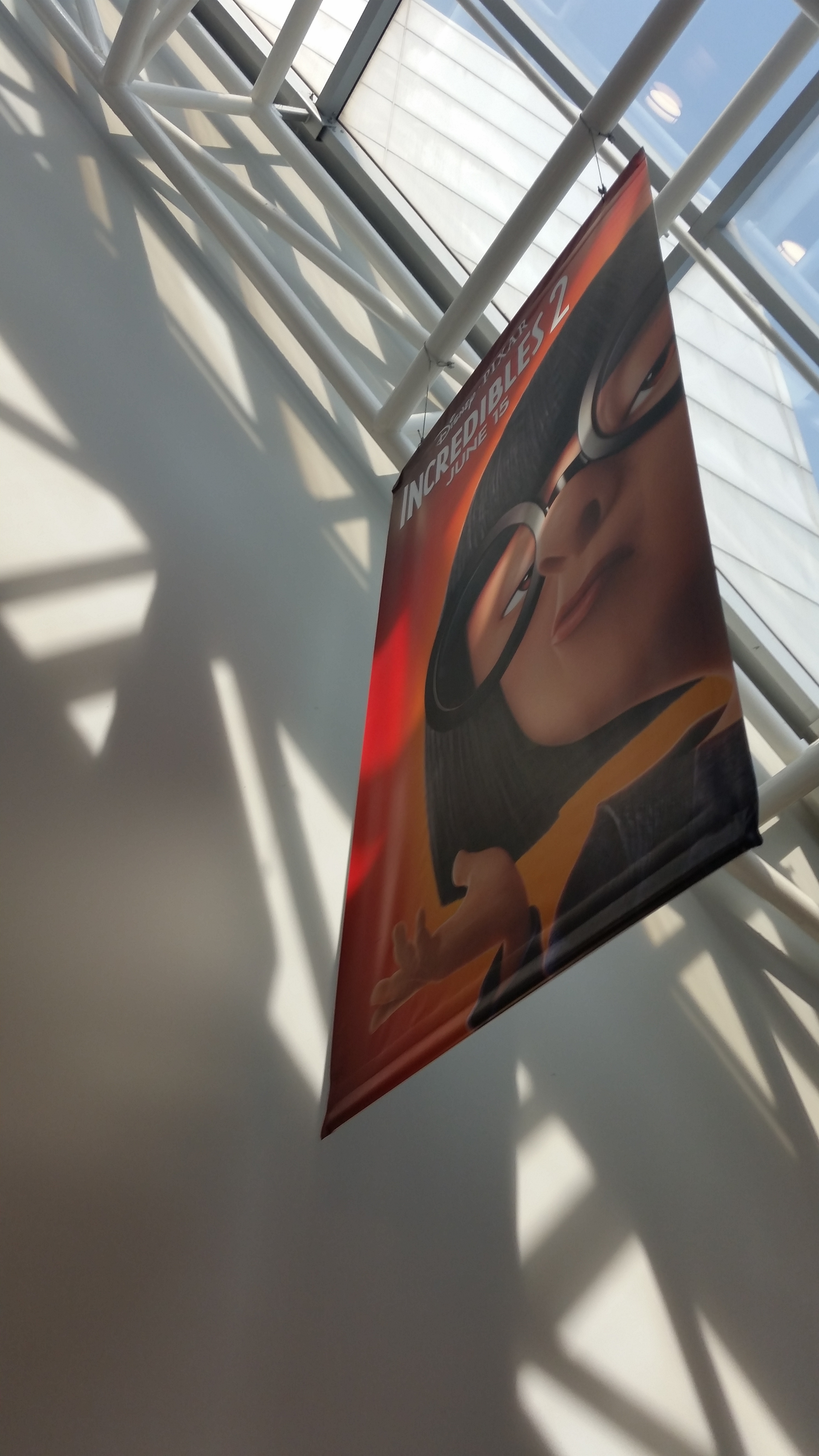 A banner advertisement in Terminal 8 for Incredibles 2